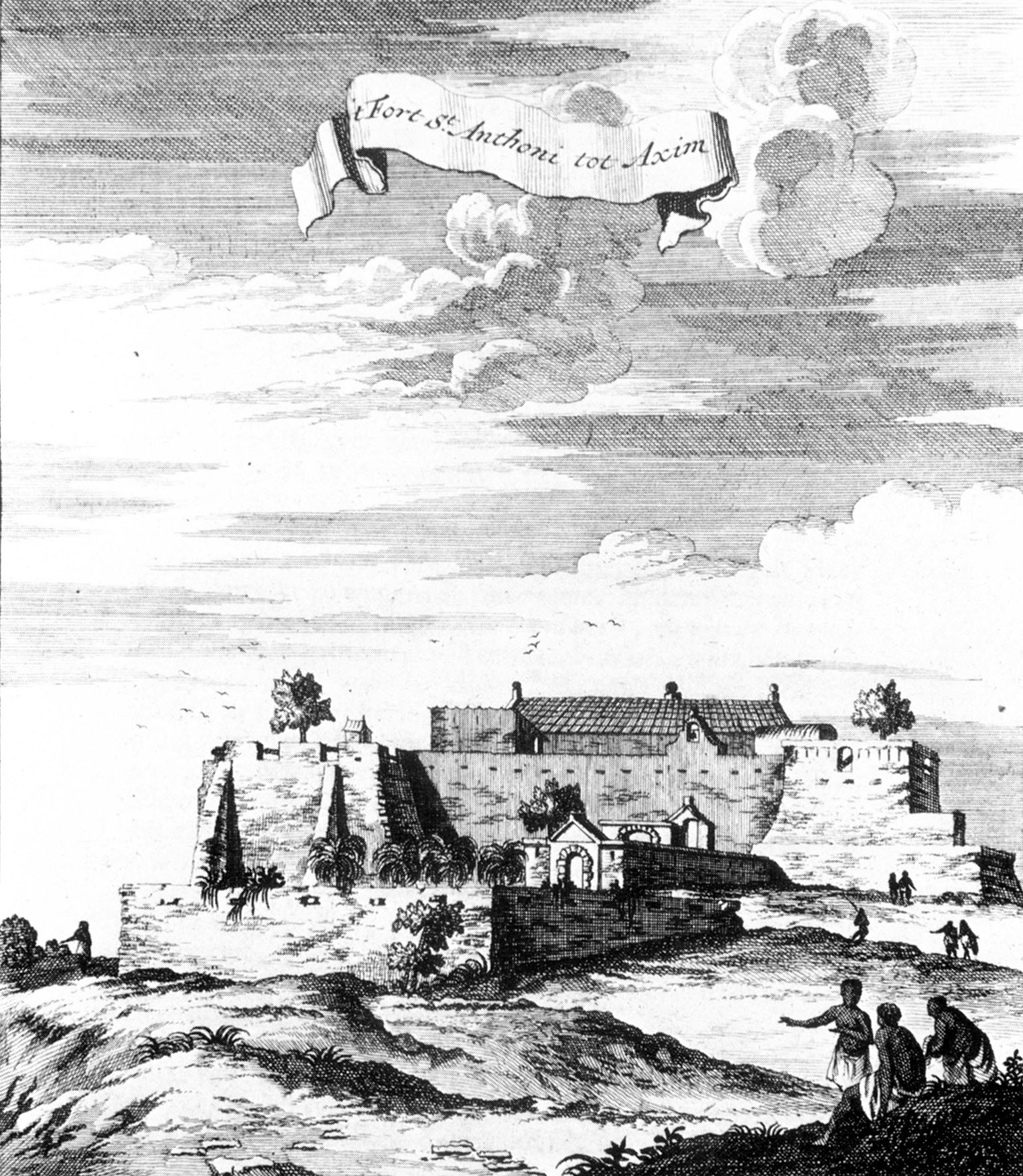 Fort St. Anthony at Axim, Dutch Gold Coast, 1709. Lithograph.